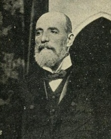 Portrait of the Italian painter Cesare Maccari. In "Illustri italiani contemporanei" by Onorato Roux (Firenze, 1908)